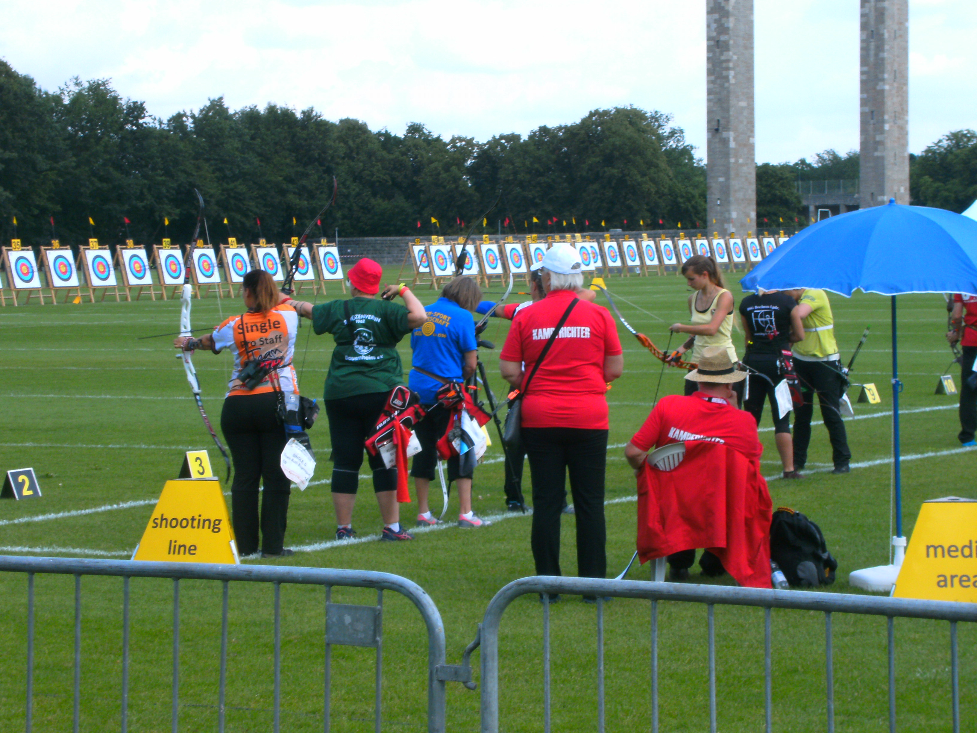 Glockenturm Berlin, view from Glockenturm/exit Maifeld on sport event on Maifeld.